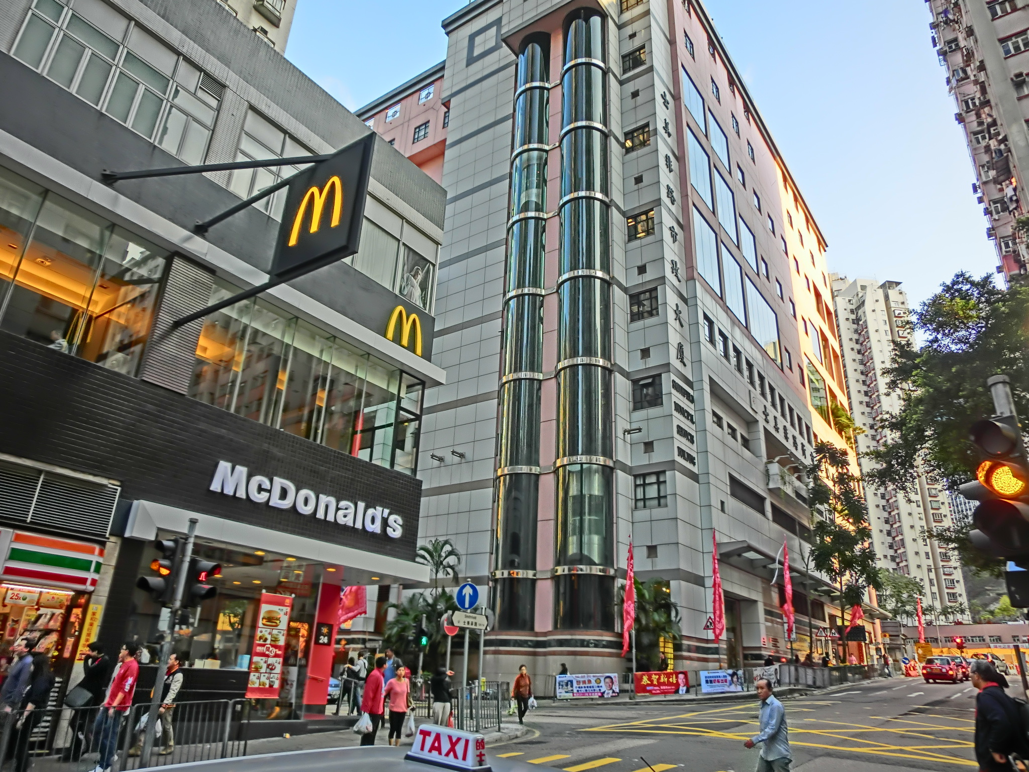 堅尼地城zh:士美非路 文光閣, Smithfield, Kennedy Town, Hong KOng